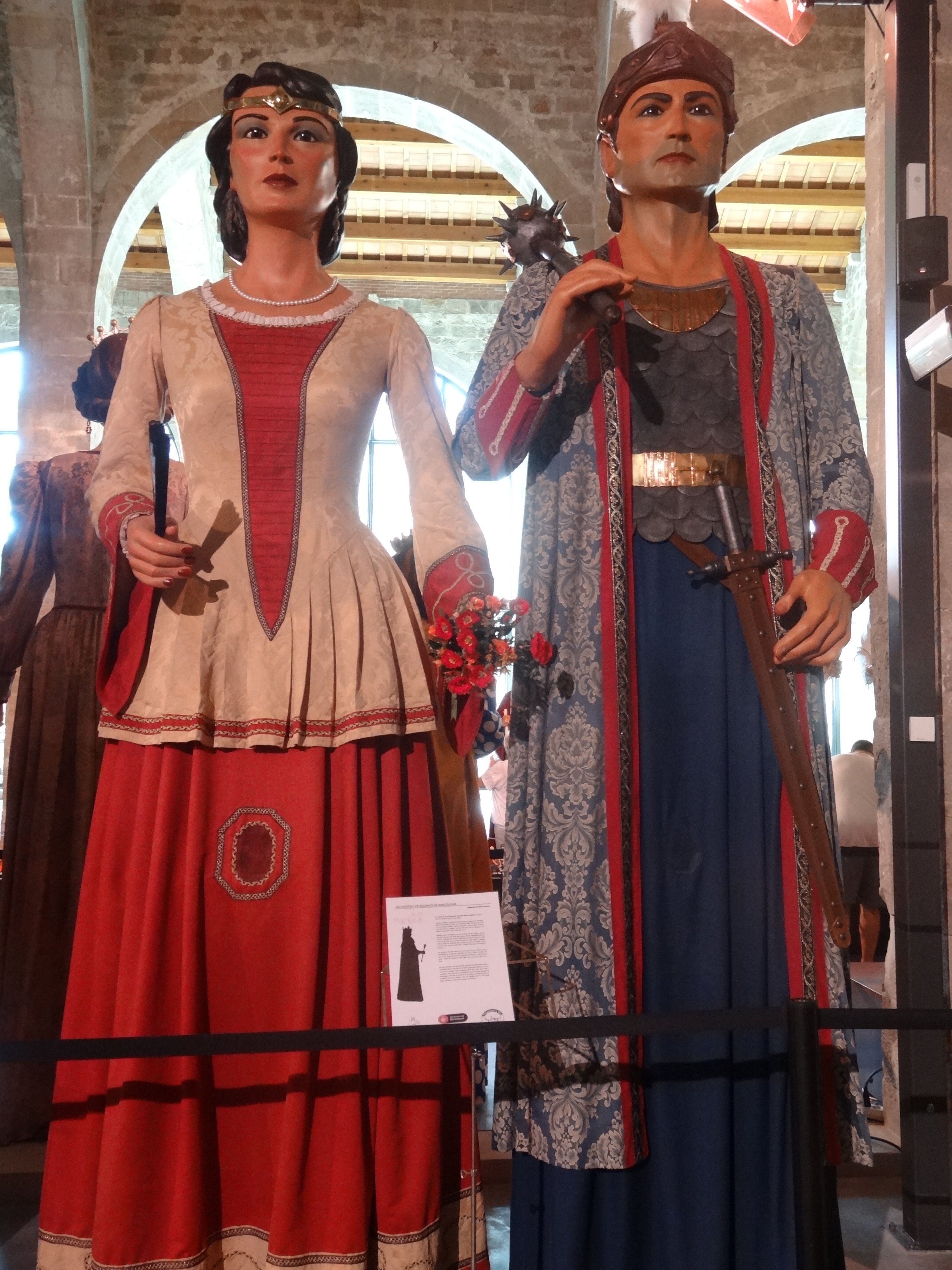 Exhibition of Giants at the Museu Marítim, Barcelona, 2013.